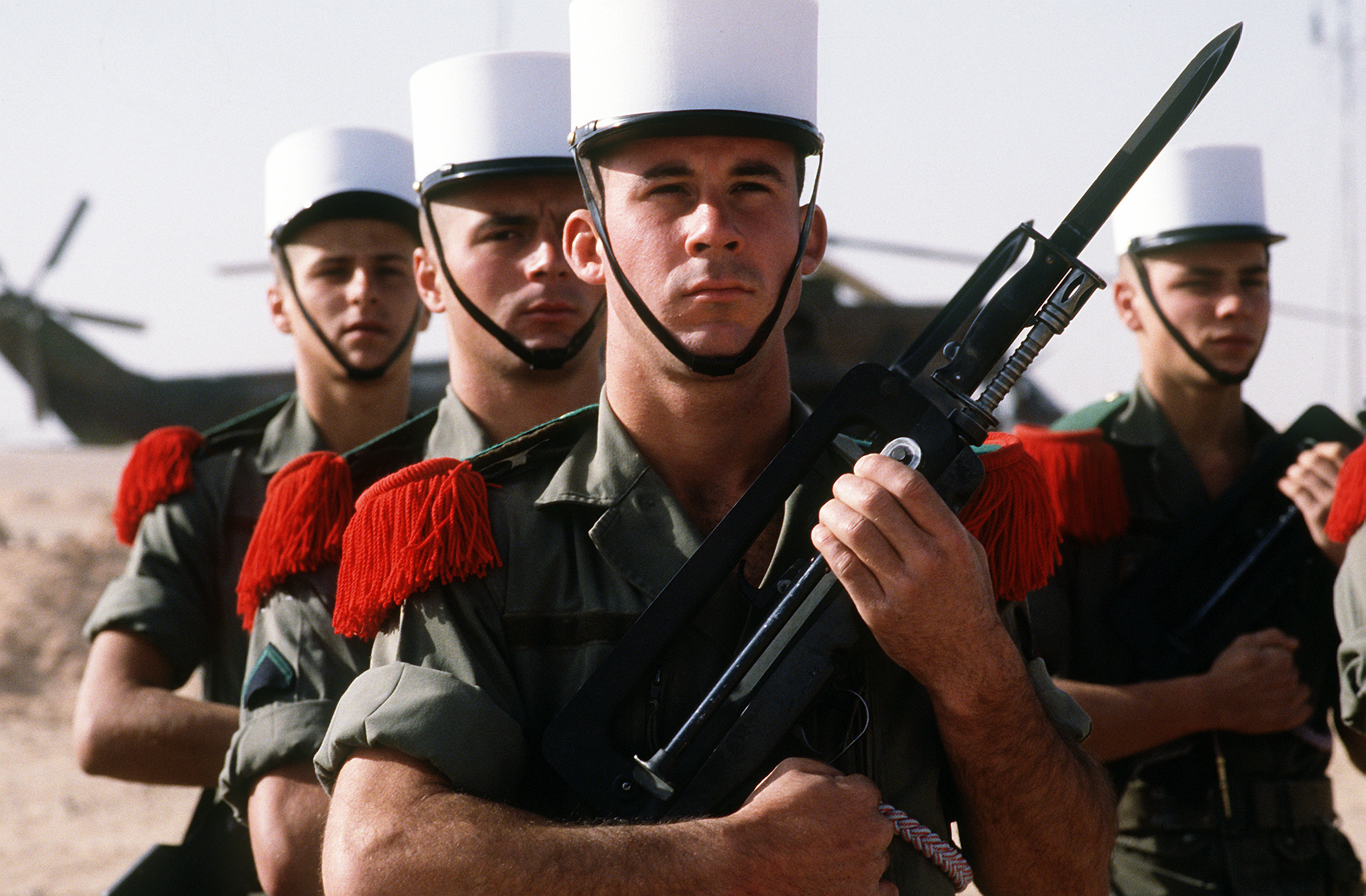 An honor guard from the French army's 6th Battalion stands at attention as they await the arrival of Lt. Gen. Khalid Bin Sultan Bin Abdul Aziz, commander of Joint Forces in Saudi Arabia, during Operation Desert Shield. The soldier in front is holding a 5.56mm FAMAS rifle, equipped with a bayonet.